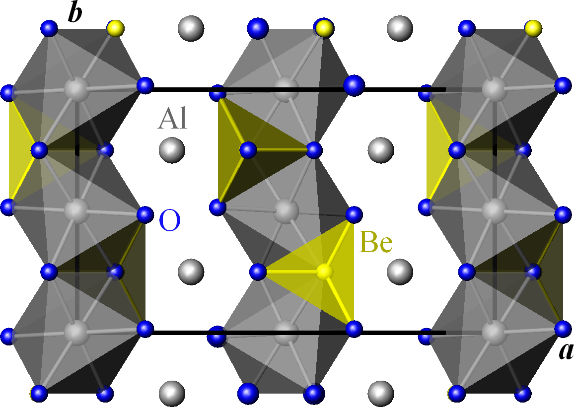 Crystal structure of chrysoberyl Be(AlO2)​2 projected onto the (a, b) plane. Gray: aluminium atoms, yellow: beryllium atoms, blue: oxygen atoms.